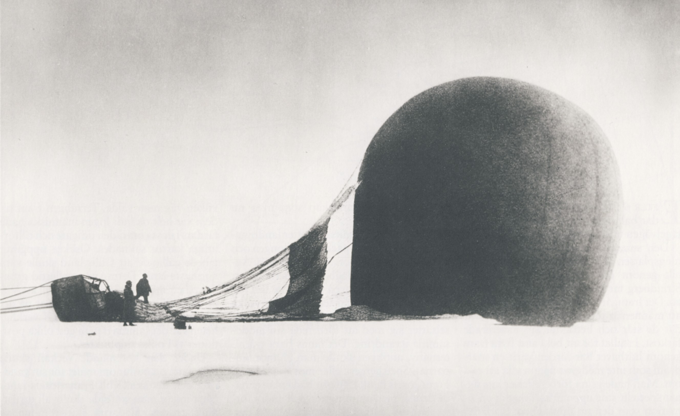 photo taken by Nils Strindberg, member of the disastrous Andrée expedition, and hence dead in 1897.